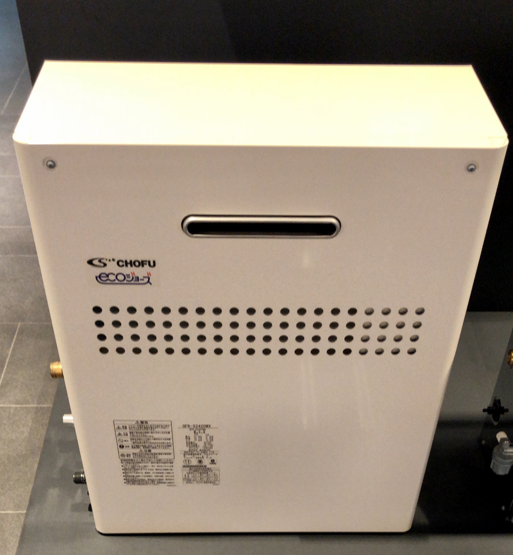 CHOFU SEISAKUSHO - Condensing boiler